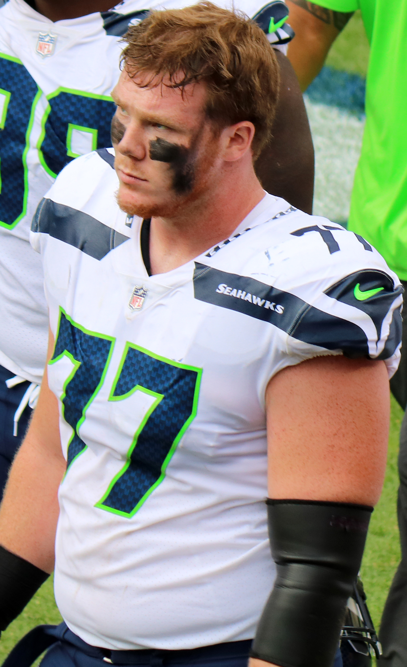 Ethan Pocic, a National Football League player.